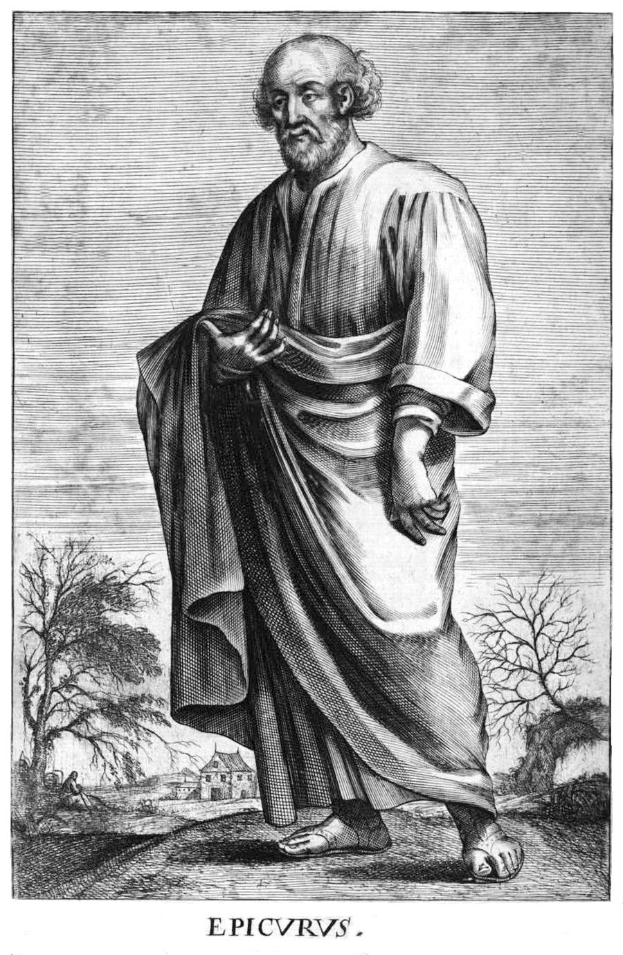 Epicurus, ancient Greek philosopher. From Thomas Stanley, (1655), The history of philosophy: containing the lives, opinions, actions and Discourses of the Philosophers of every Sect, illustrated with effigies of divers of them.